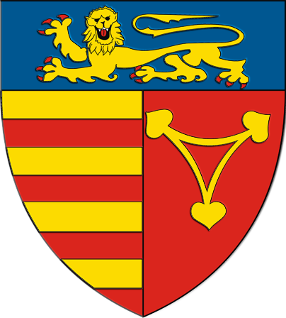 Coat of arms of Sibiu County, Romania.